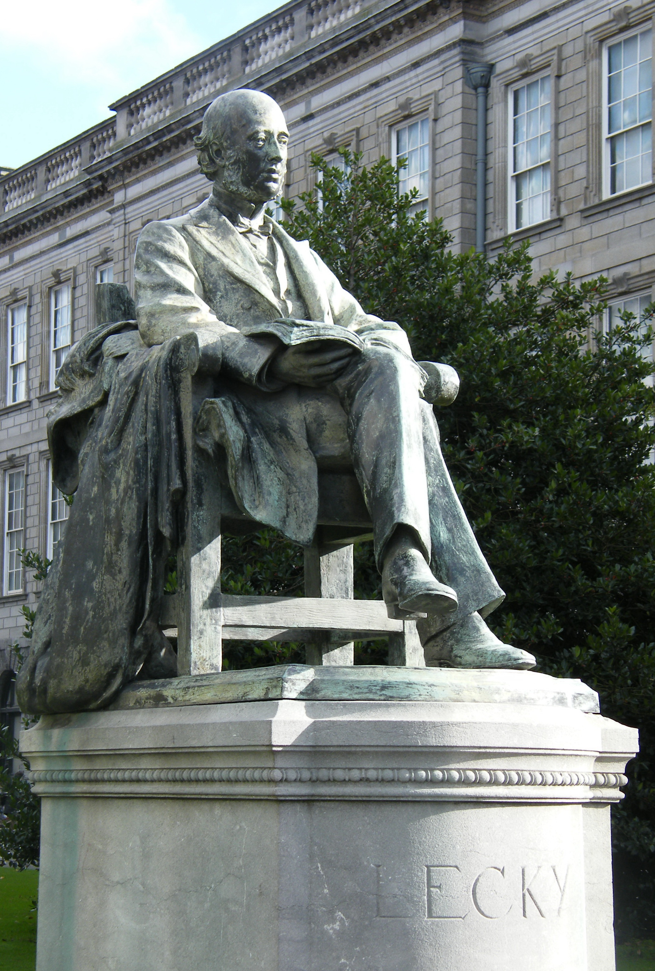 William_Edward_Hartpole_Lecky